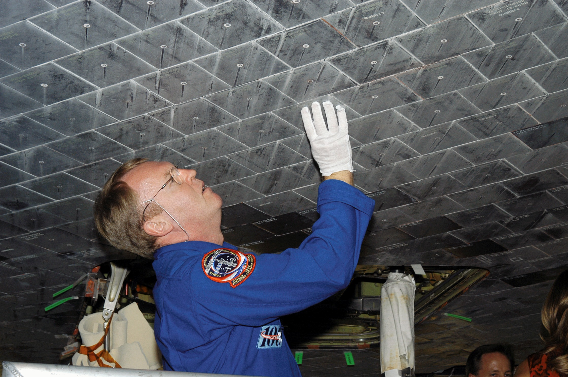 JSC2003-E-61578 (30 October 2003) --- Astronaut Andrew S. W. Thomas, STS-114 mission specialist, takes a close look at tiles underneath the Space Shuttle Atlantis in the Orbiter Processing Facility at Kennedy Space Center (KSC).